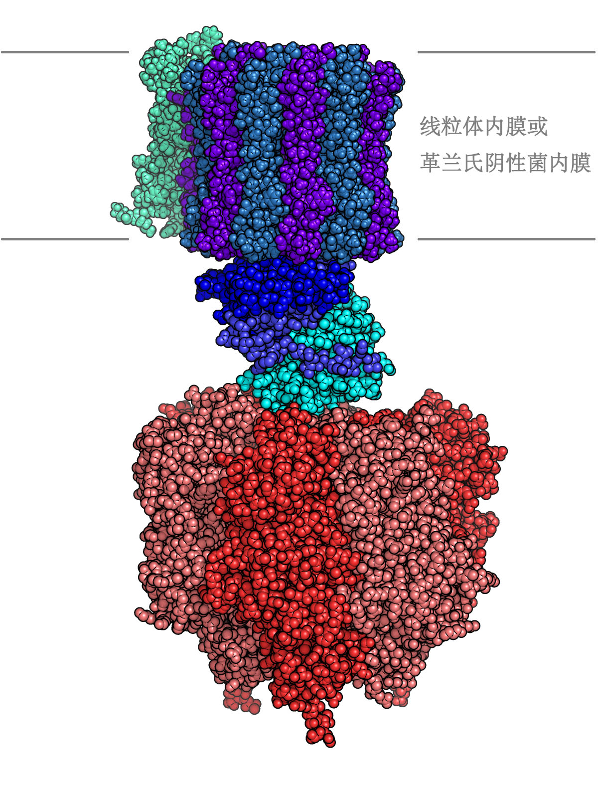 Using 1QO1 as framework to combine 1C17(FO) and 1E79(F1. PyMOL was used for rendering.